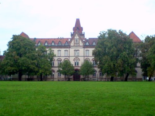 Rudolf Barracks, Zagreb, Croatia - main building